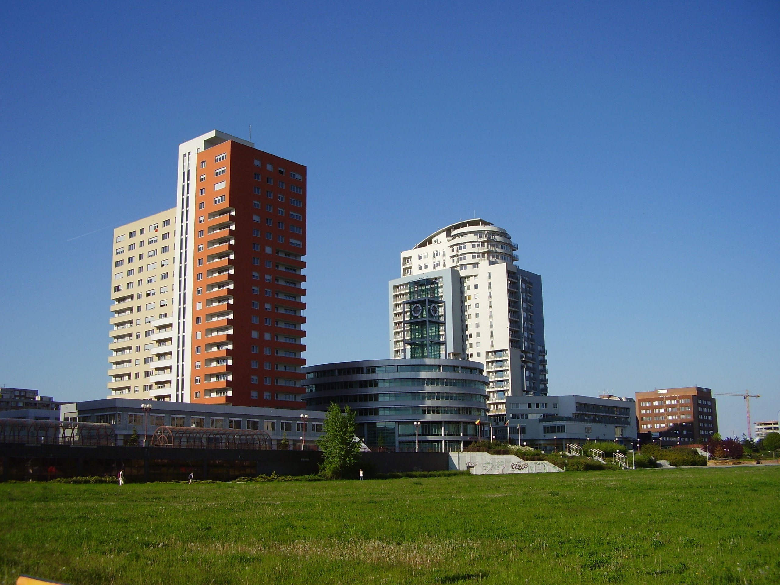 Town hall of Prague 13 on Hůrka